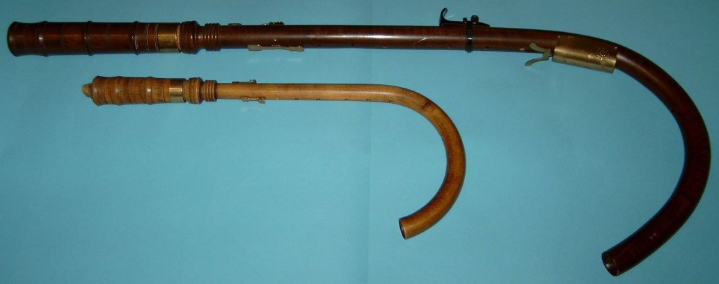 crumhorns, modern versions with two keys. alto crumhorn in f: scale range f0g0–g1 without keys, extended up to bb1 with keys. bass crumhorn in f: scale range FG–g0 without keys, extended up to bb0 with keys.